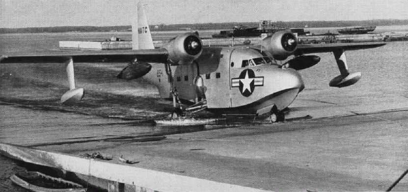 The second Grumman XJR2F-1 Albatross prototype (BuNo 82854) beaching after a trials fight. Cdr. H.E. McNeely, Head of Patrol Section of the U.S. Naval Air Test Center at NAS Patuxent River, Maryland (USA), was at the controls during this flight. The XJR2F-1 first flew on 24 October 1947. It was redesignated UF-1 before production started and finally became the HU-16 in the tri-service scheme of 1962.